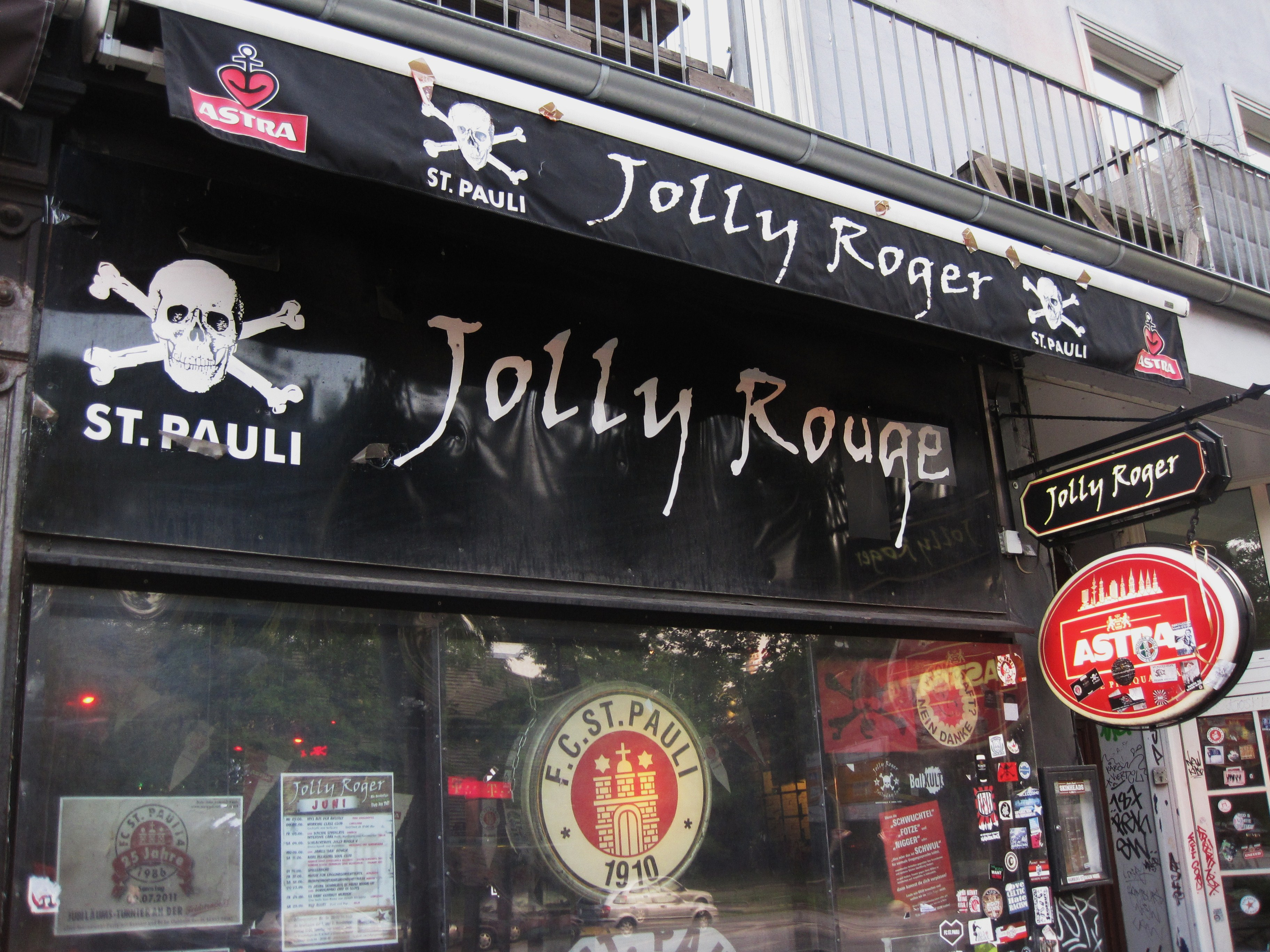 Jolly Roger, a pub run by and for supporters of FC St Pauli